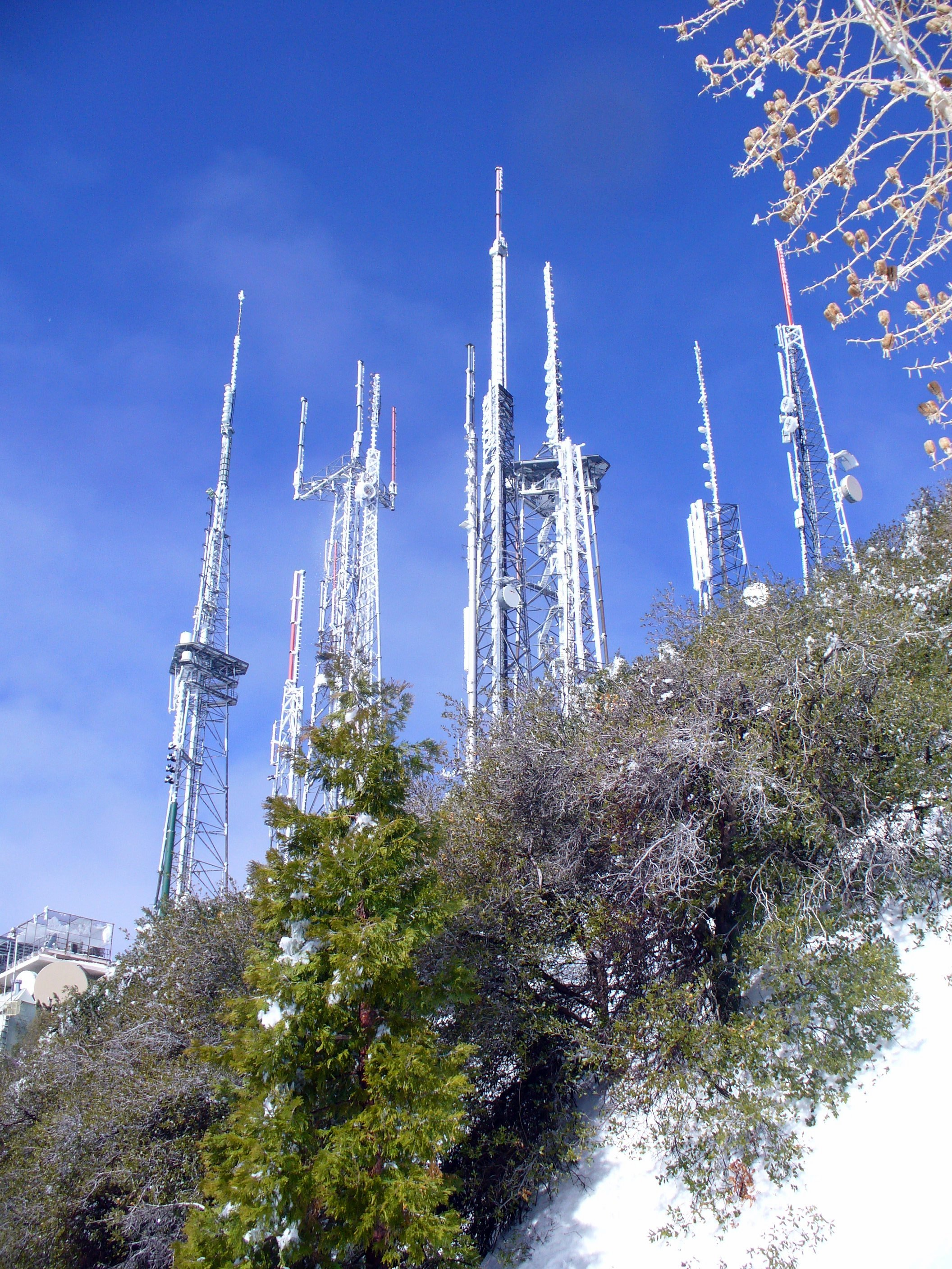 Radio antennas on Mount Wilson, San Gabriel Mountains, CA, in winter. Radio transmitting antennas are often located on the highest geographical point in the area, such as mountain peaks, to give them the maximum transmission range, resulting in antenna farms like this. The vertical rods are mainly whip antennas, often base station antennas used by dispatchers for land mobile radio systems for fire, police, ambulance, taxi, and delivery services. The multiple identical antennas strung in a vertical line along towers are VHF collinear array broadcasting antennas for FM and television stations. It sounded like thunder whenever one of the towers shed a hunk of ice.